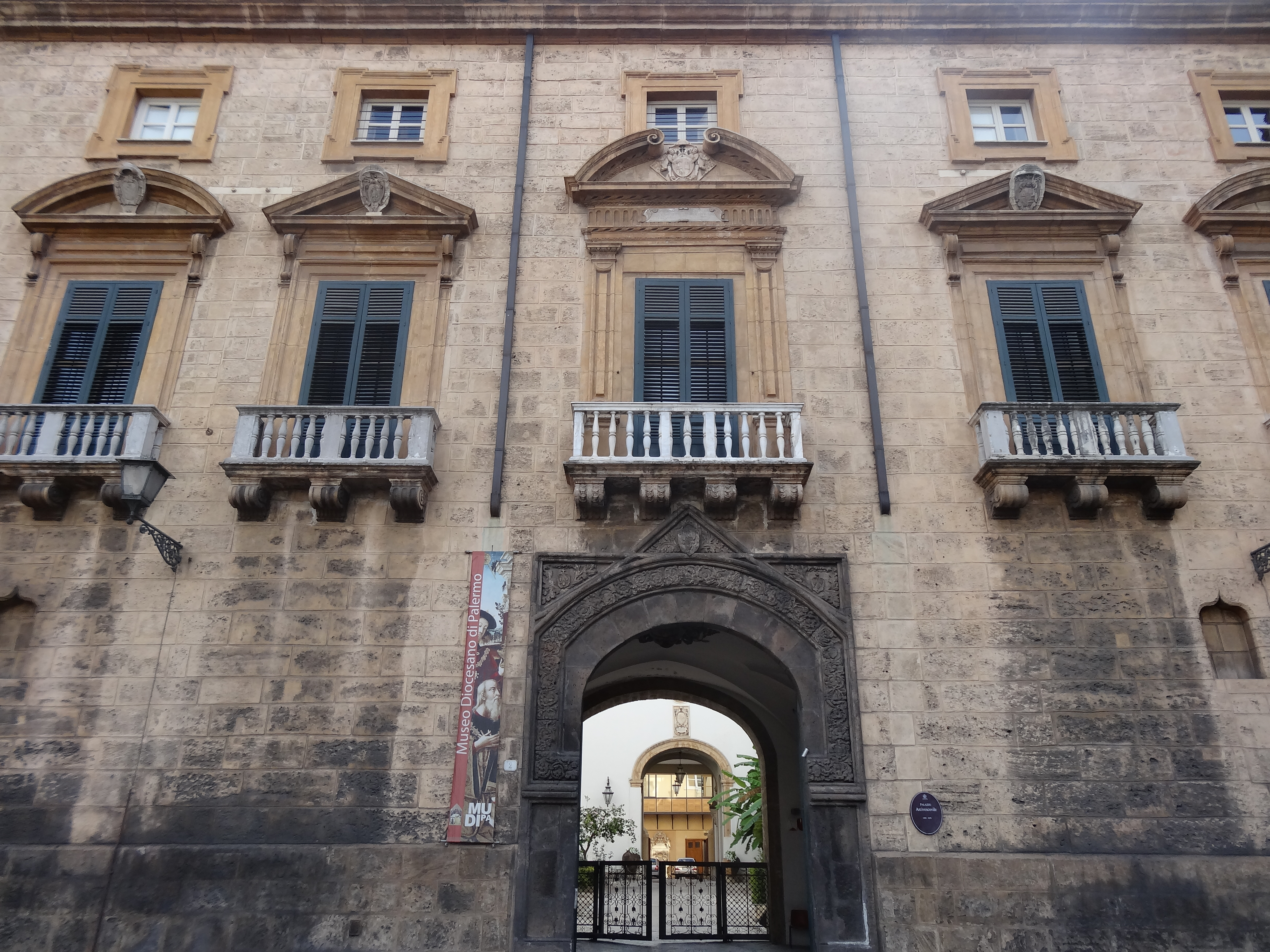 Palazzo arcivescovato palermo